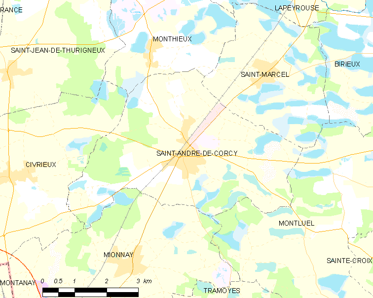 Map of French commune: Saint-André-de-Corcy Map commune FR insee code 01333.png